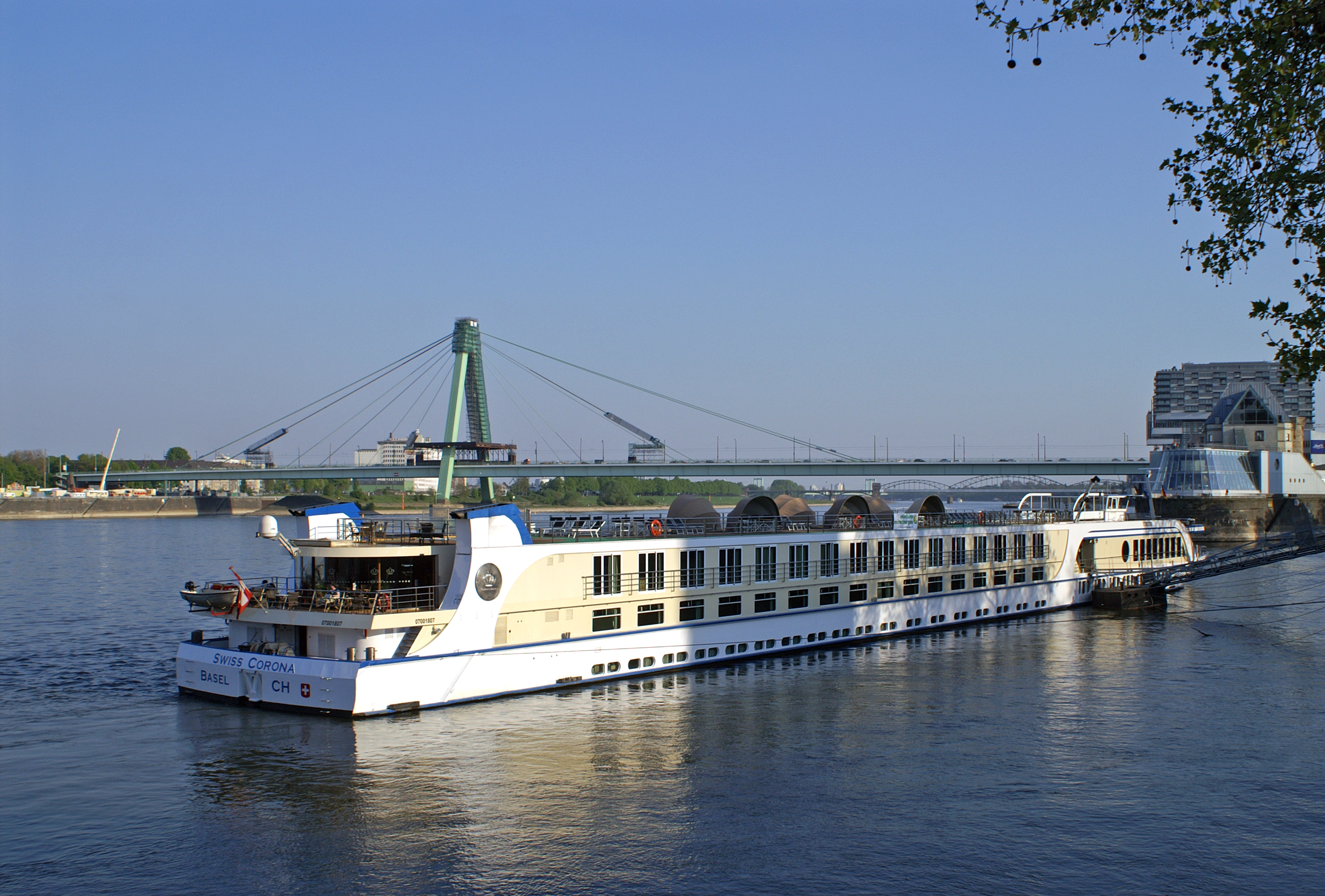 River cruise ship Swiss Corona in cologne.